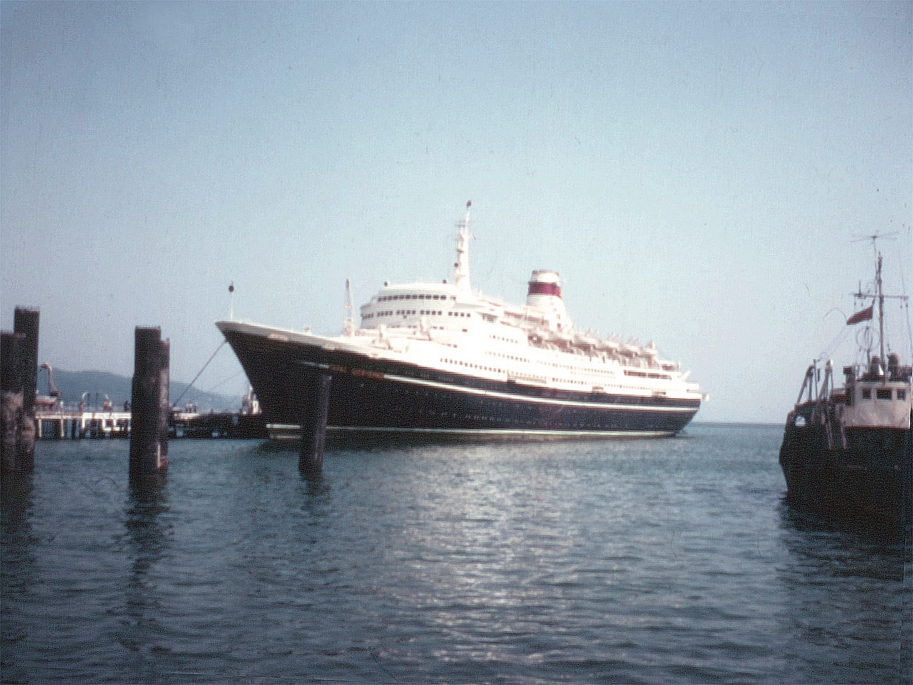 Taras Shevchenko moored at Black Sea quay in Sukhumi, Abkhaz ASSR, Georgian SSR in June 1970